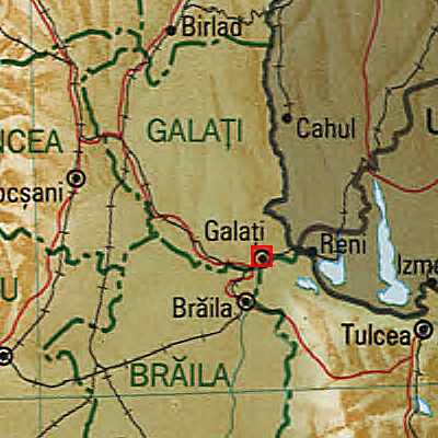 Map of Galați Municipality, Romania.